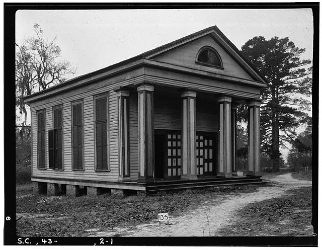 High Hills of Santee Baptist Church, front and side elevations — in the Stateburg Historic District, Stateburg, Sumter County, South Carolina. 1934 image: HABS—Historic American Buildings Survey of South Carolina.